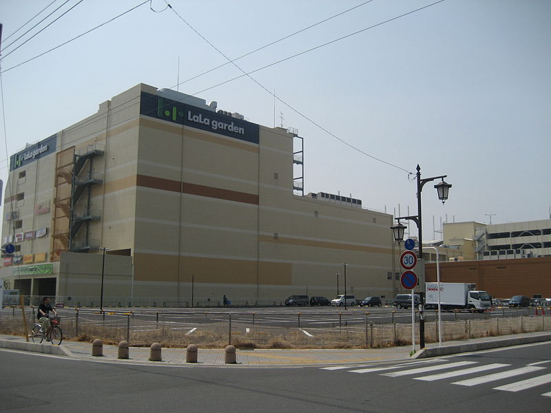 LaLa Garden Kasukabe